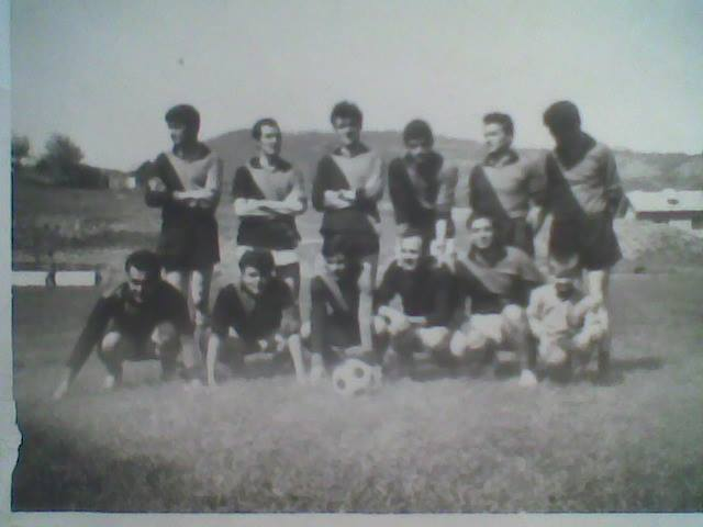 "Ботев"-Горна баня...последен мач...1967г. в Трън.